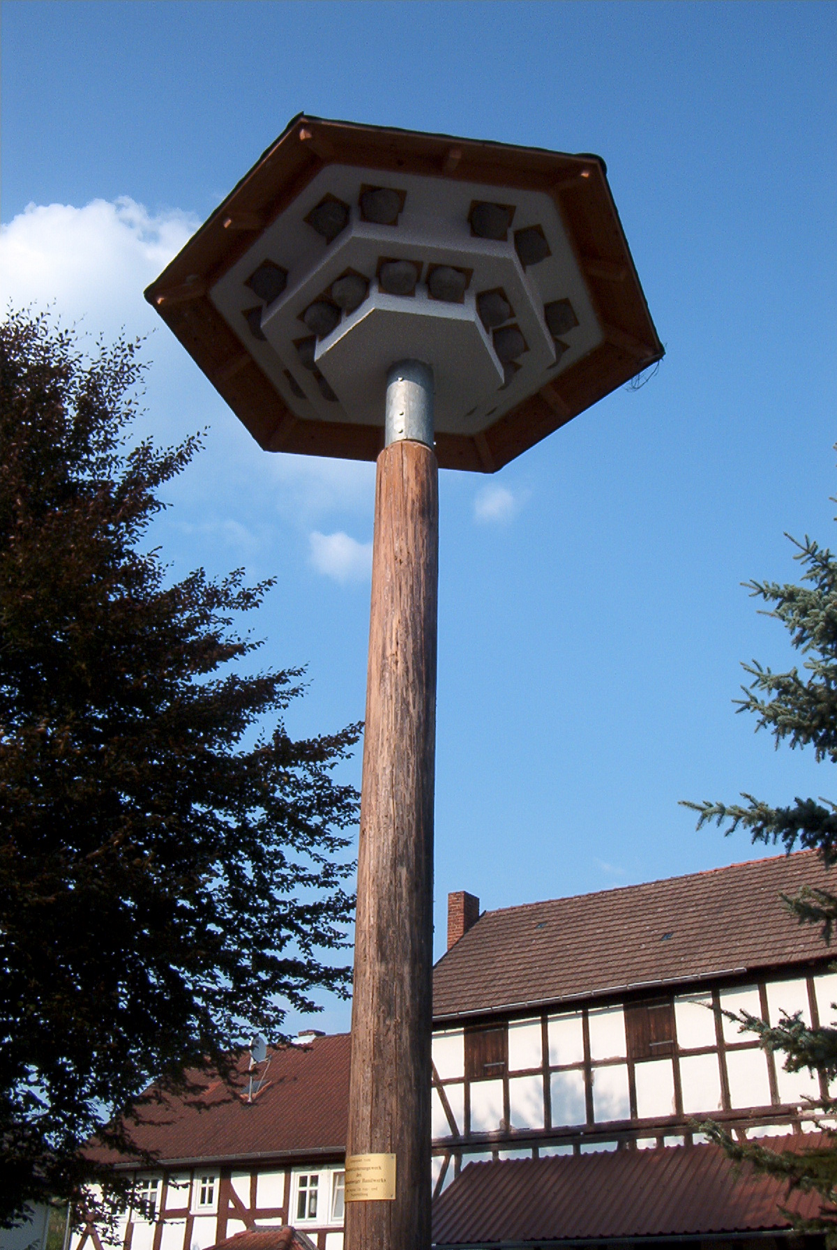 Swallow's house in Burgwald-Ernsthausen, Germany